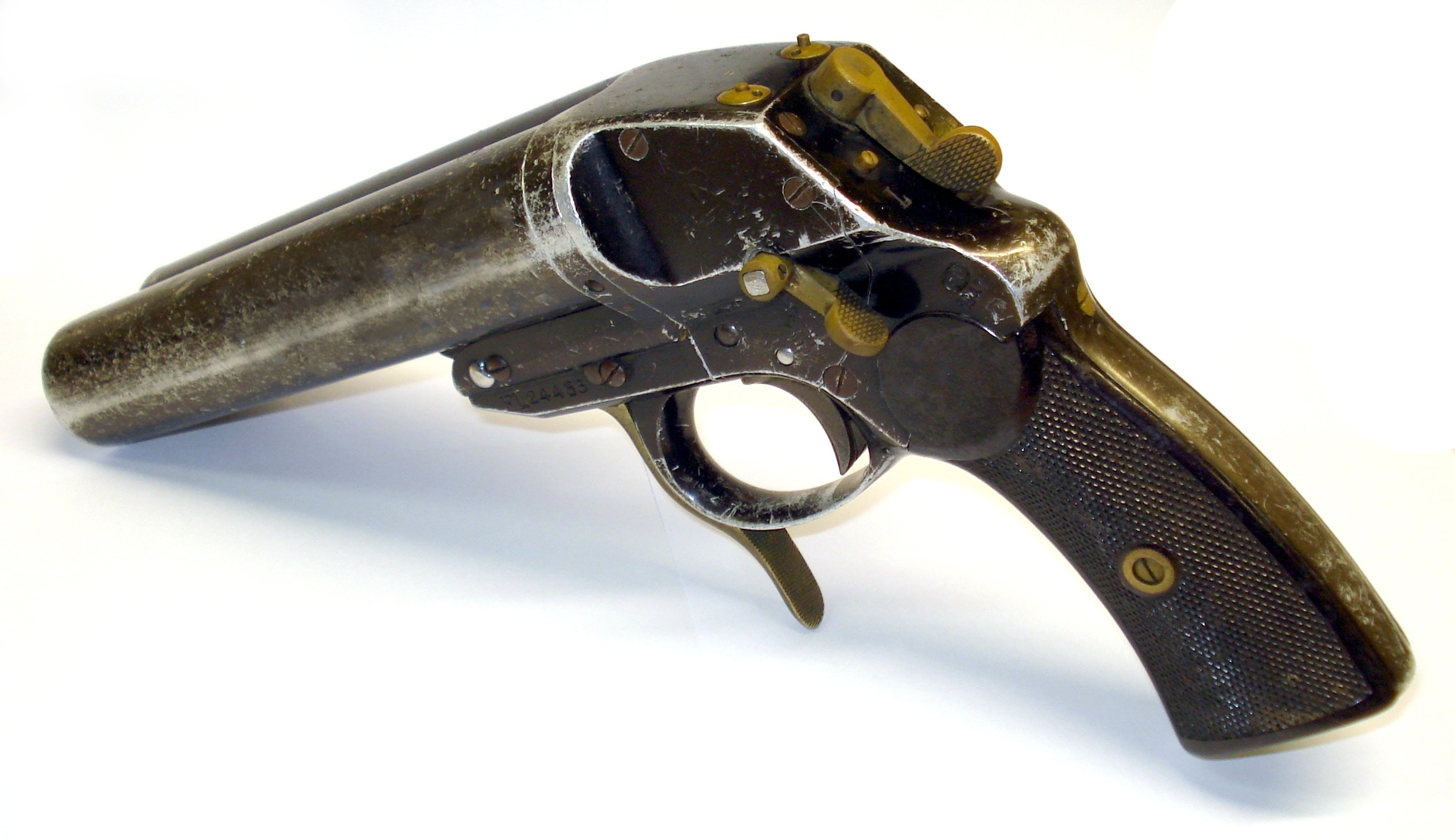 Double-barreled flier flare gun mod L, manufacturing Ecko (Emil Eckoldt, Suhl), built in 1941, caliber 4, requirement no. Fl.24483